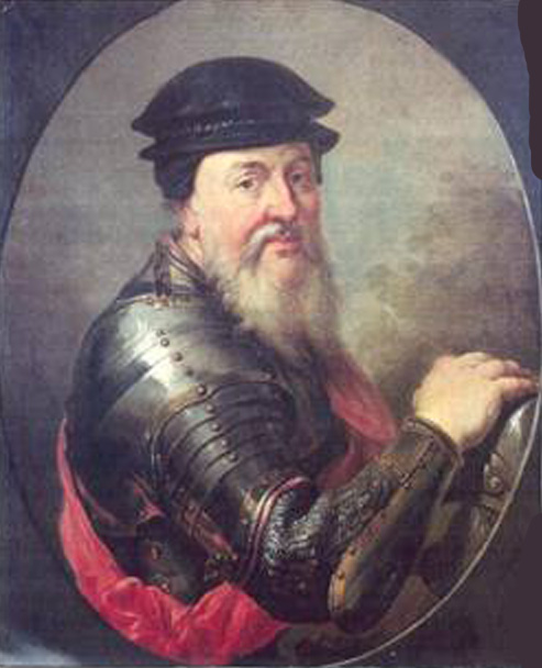 Jan Amor Tarnowski, author died 400 years ago Category:Polish historical images